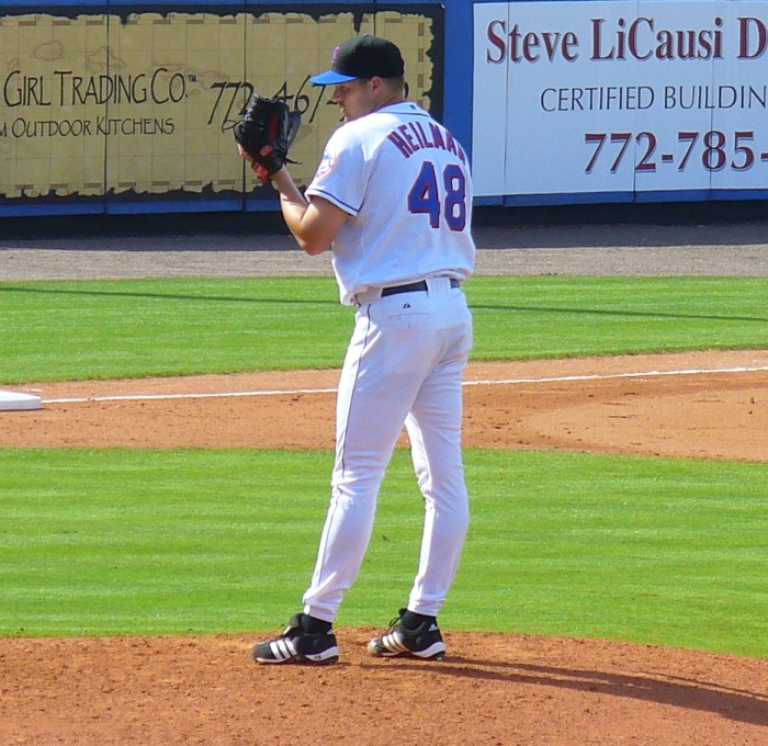 Aaron Heilman 03:45, 19 July 2007 . . Metsfan7 . . 700×680 (428,001 bytes)